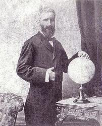 The Greek physician and explorer Panayotis Potagos (1839-1903), who travelled Sudan in 1876-77.